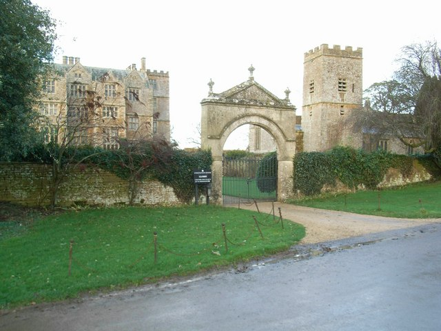 Chastleton House and St. Mary the Virgin parish church with the main entrance between. The house was built circa 1602-18 and the church tower was built in 1689.